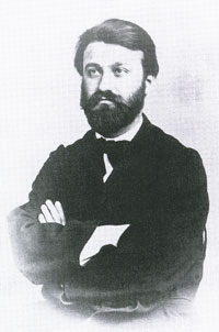 Mikhail Petrovitch Klodt (1835-1914)